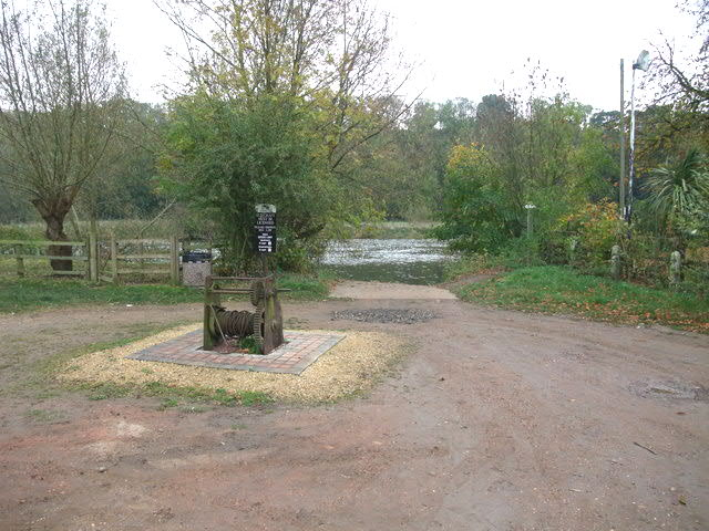 Site of Hazelford A crossing point of the Trent from prehistoric times. Initially as a ford - the Trent being shallower prior to dredging and the construction of weirs - and then by ferry up until the early 20th century.